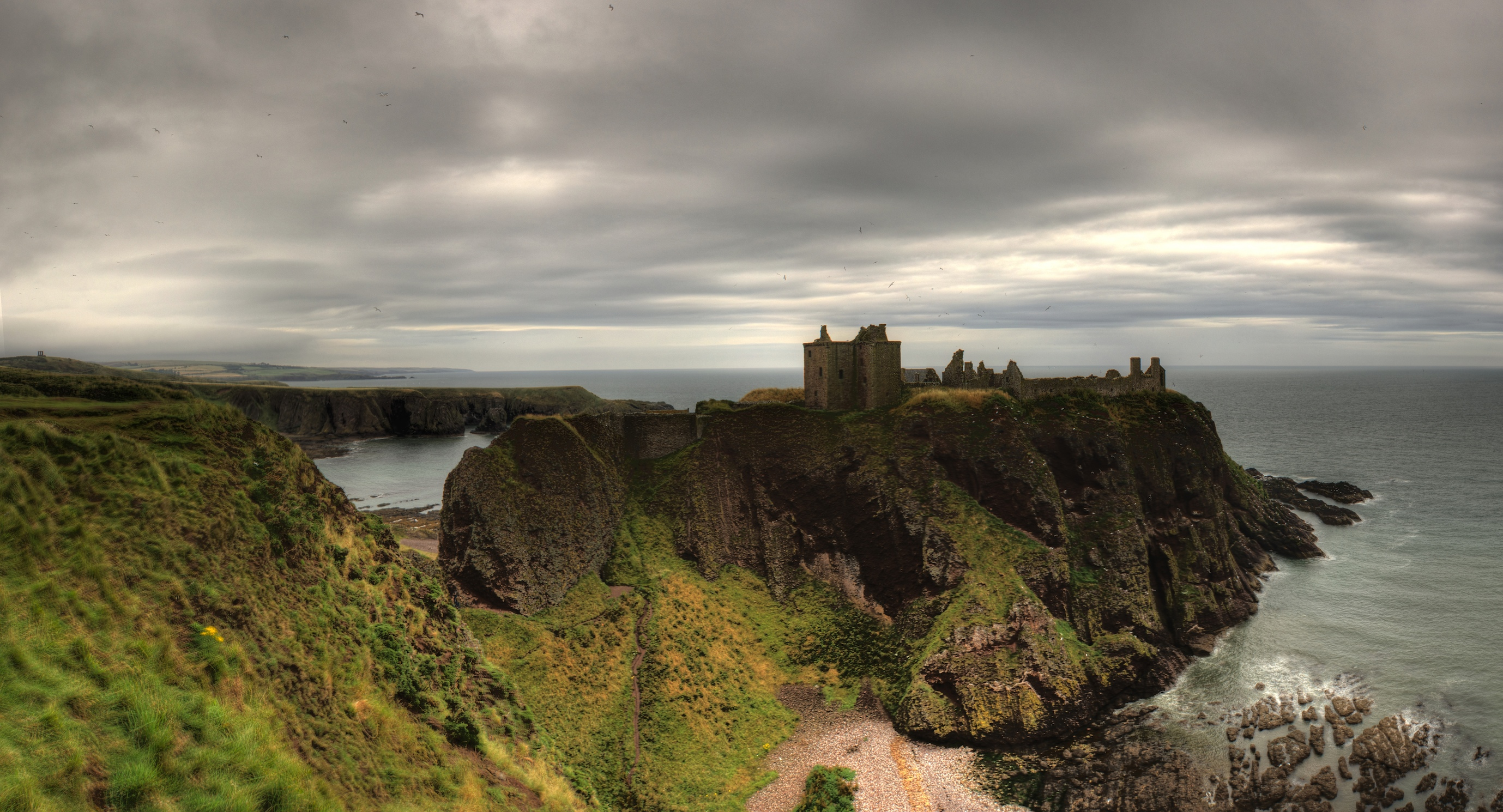 Dunnottar Castle, Scotland, UK